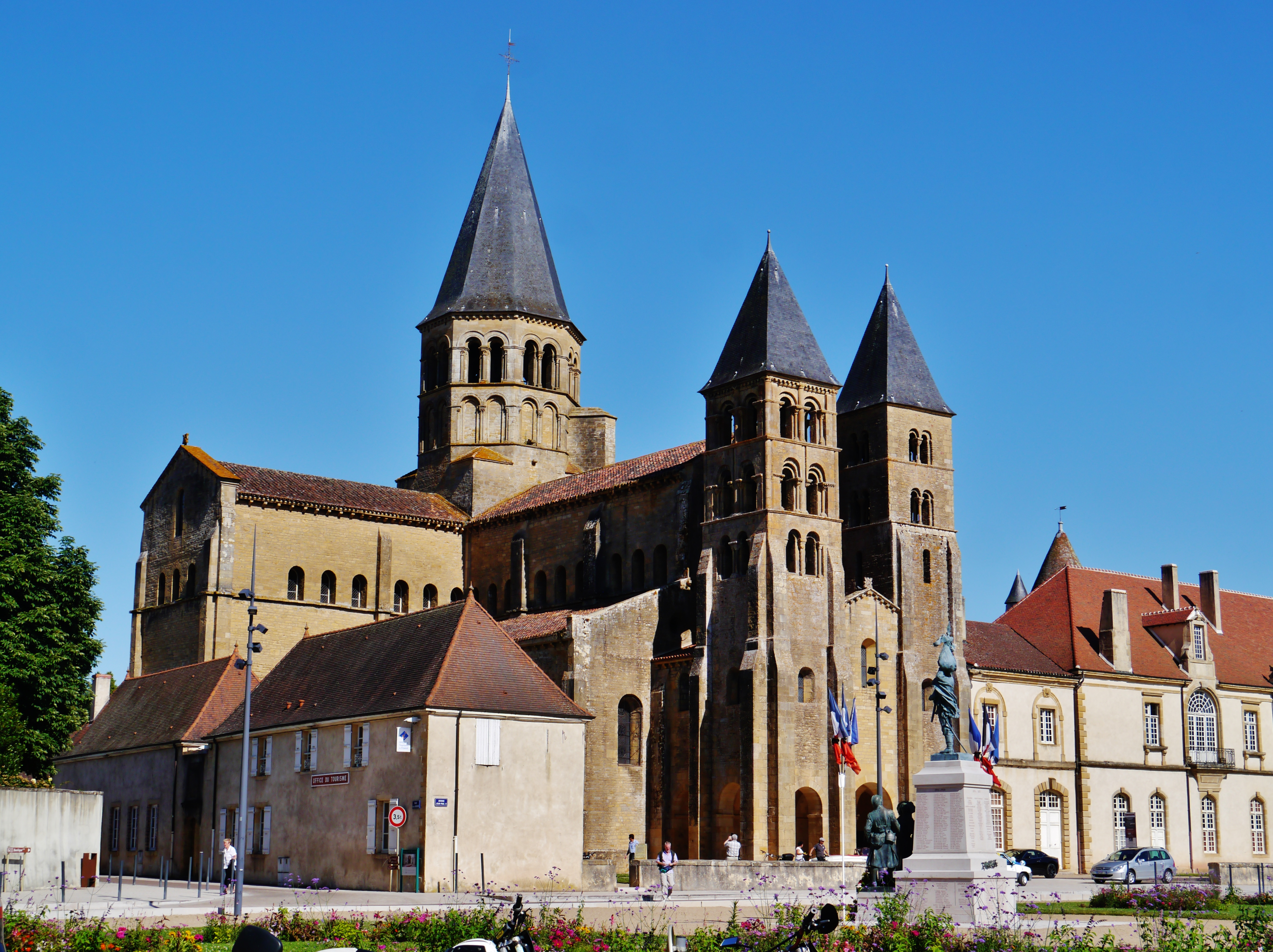 Basilica of the Sacred Heart, Paray-le-Monial, Département of Saône-et-Loire, Region of Burgundy (now Burgundy-Franche-Comté), France